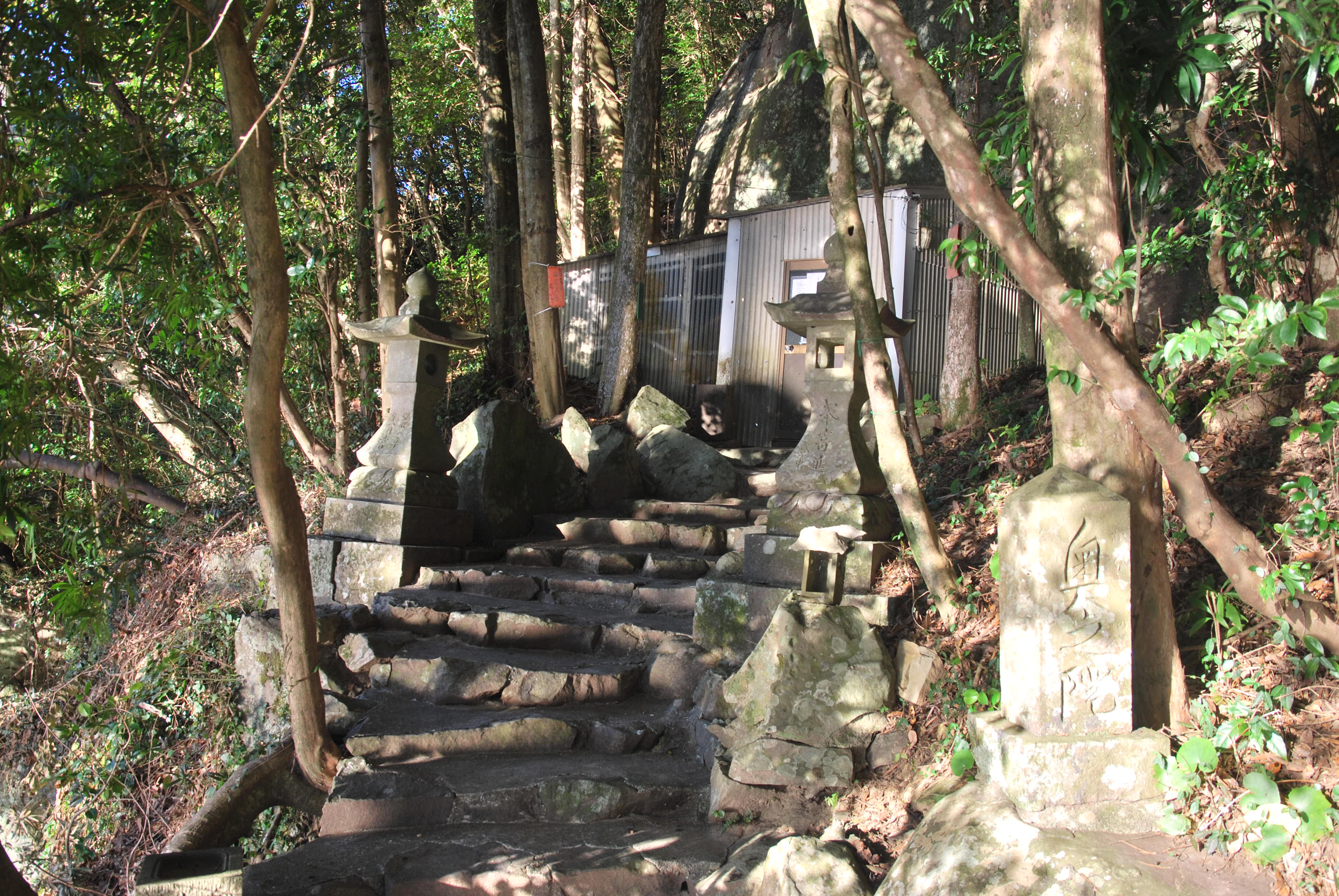 View of Motoosan-okunoin